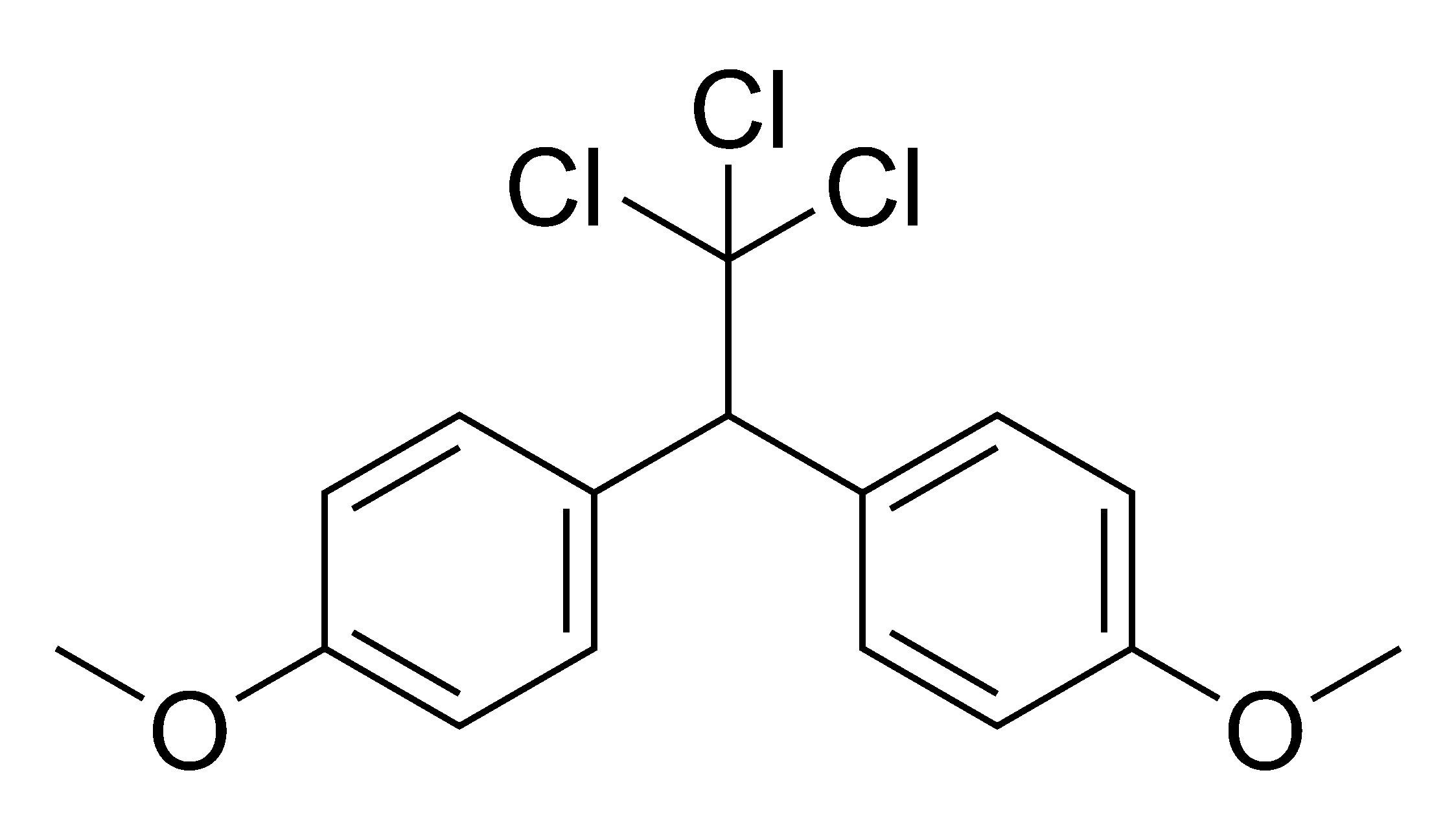 Chemical structure of methoxychlor